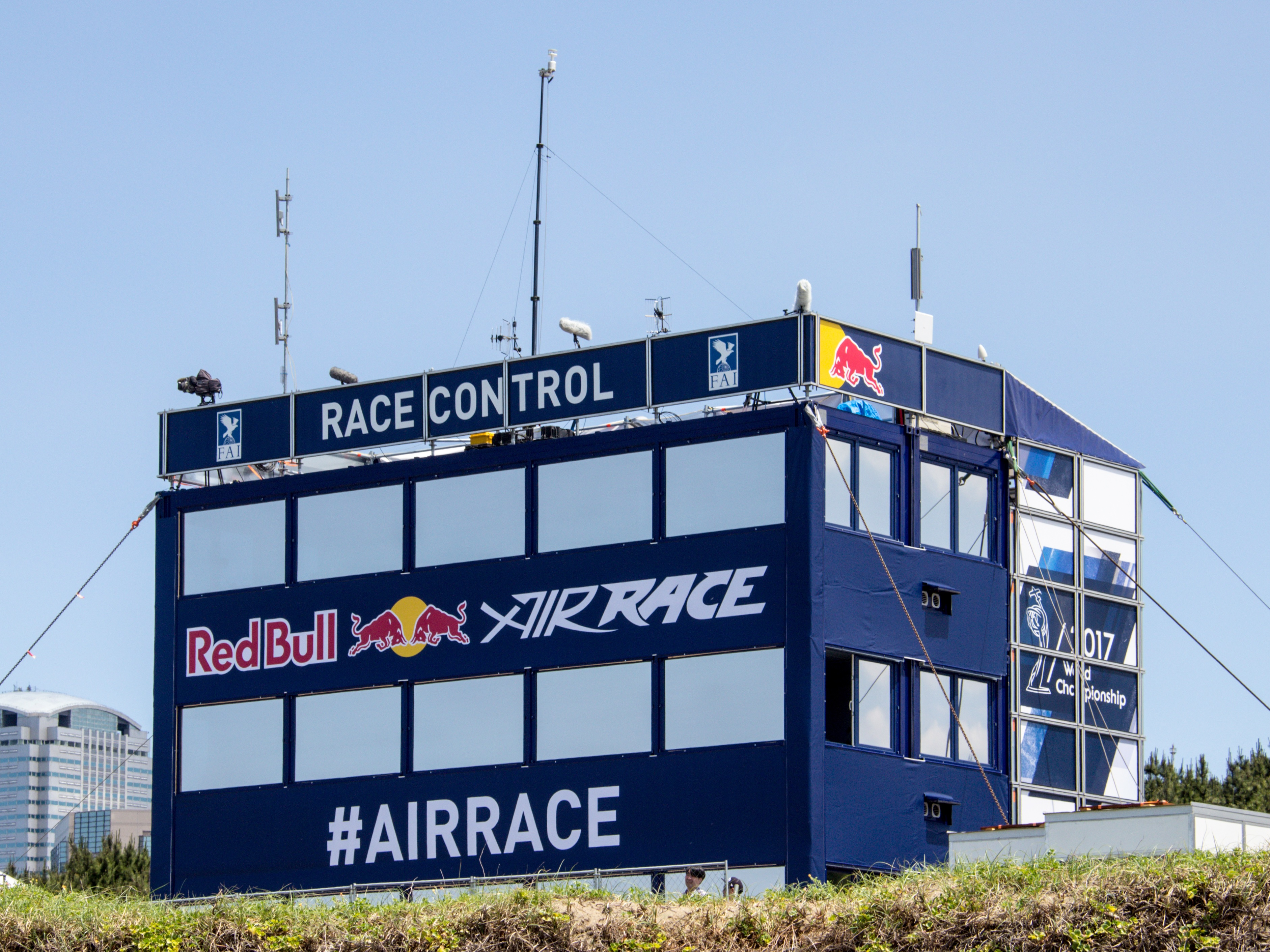 2017 Red Bull Air Race of Chiba Race Control